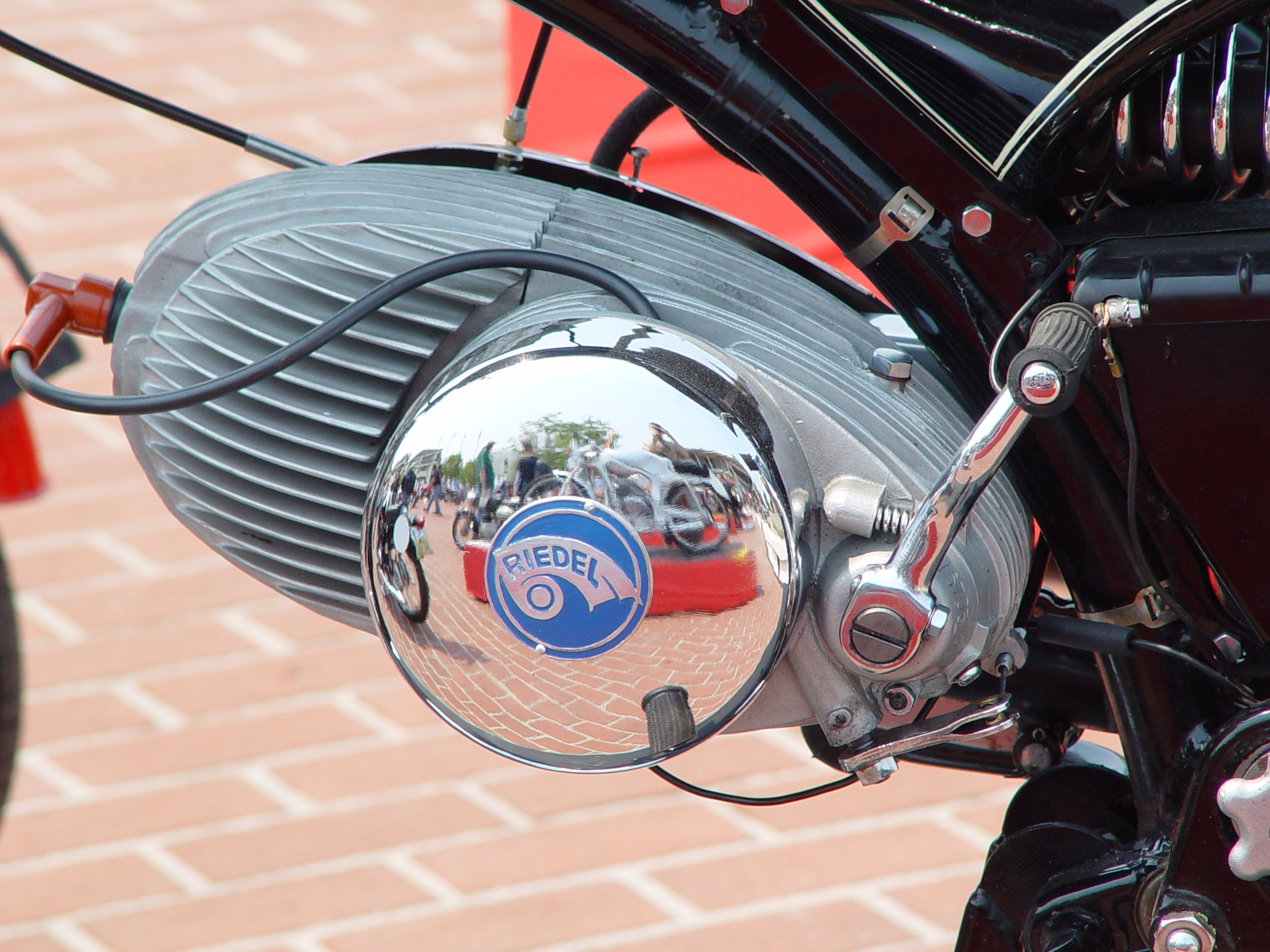 Left side of Riedel Imme R100 engine, with kickstarter